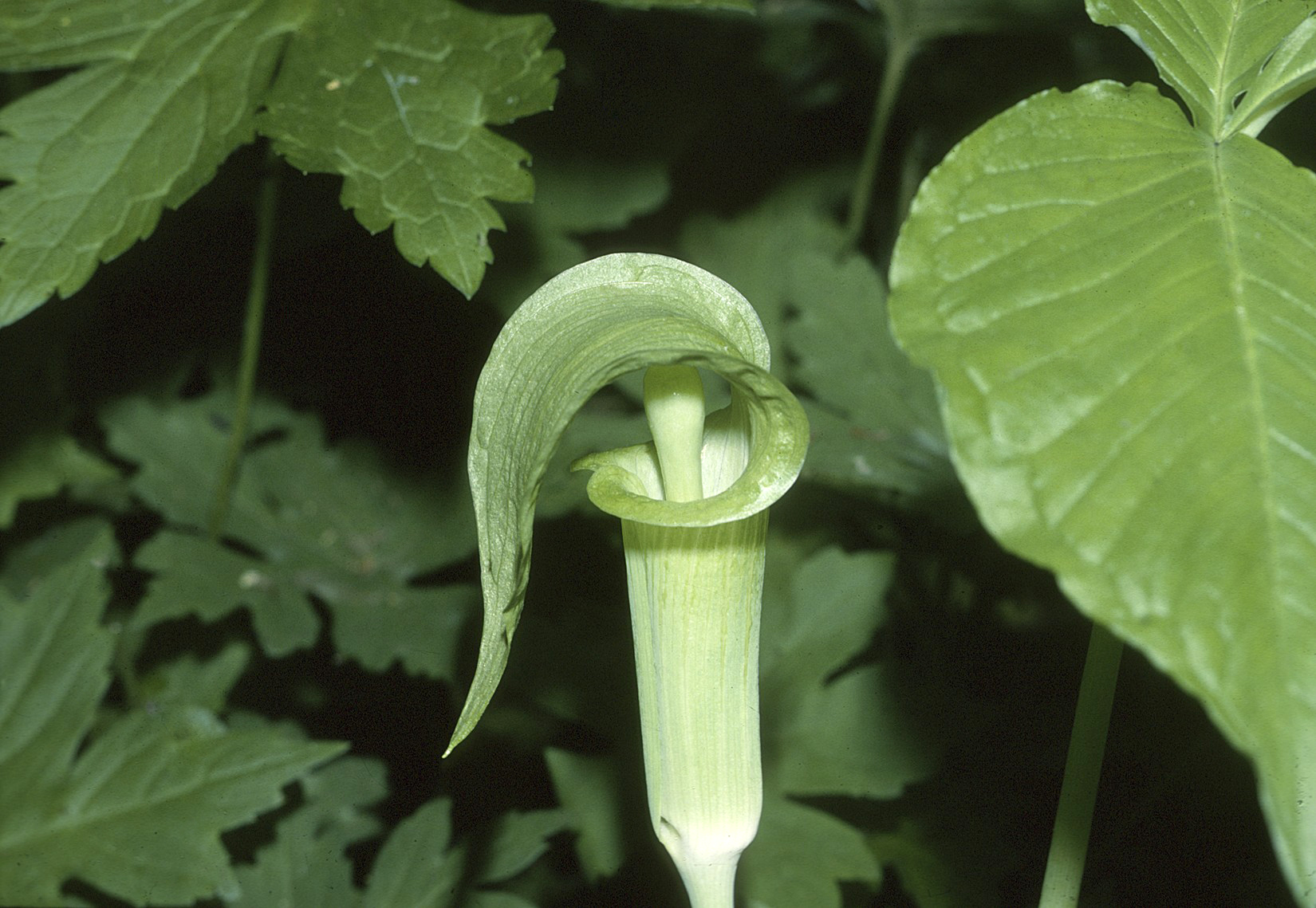 Arisaema triphyllum - Jack in the pulpit